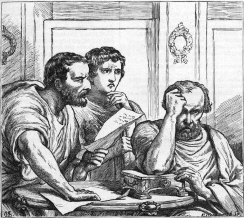 Illustration of Octavian, Antony and Lepidus debating proscriptions from Shakespeare's Julius Caesar